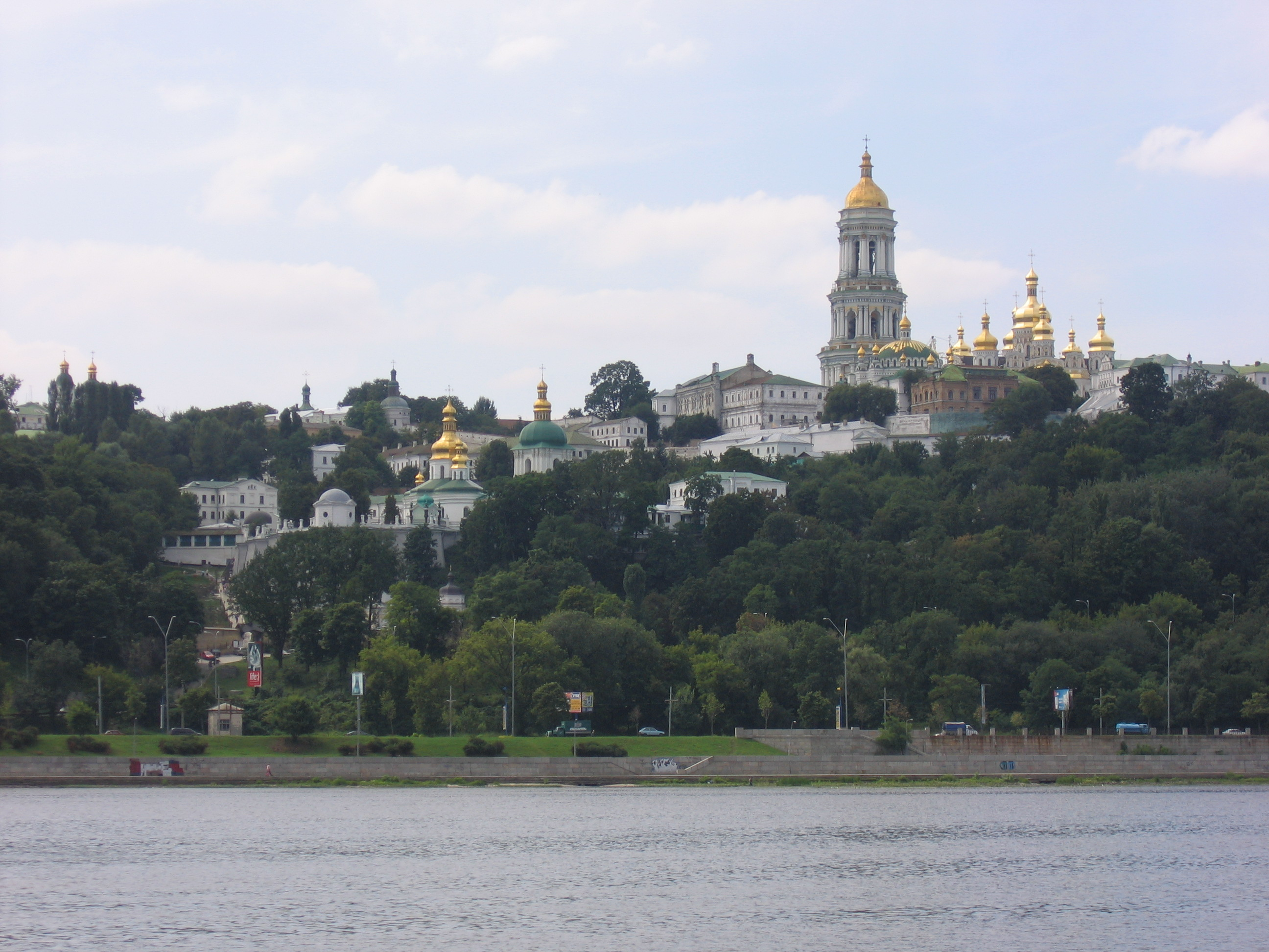 Kiev Pechersk Lavra / Kiev Monastery of the Caves, in Kiev, Ukraine. View from Dnepr river.